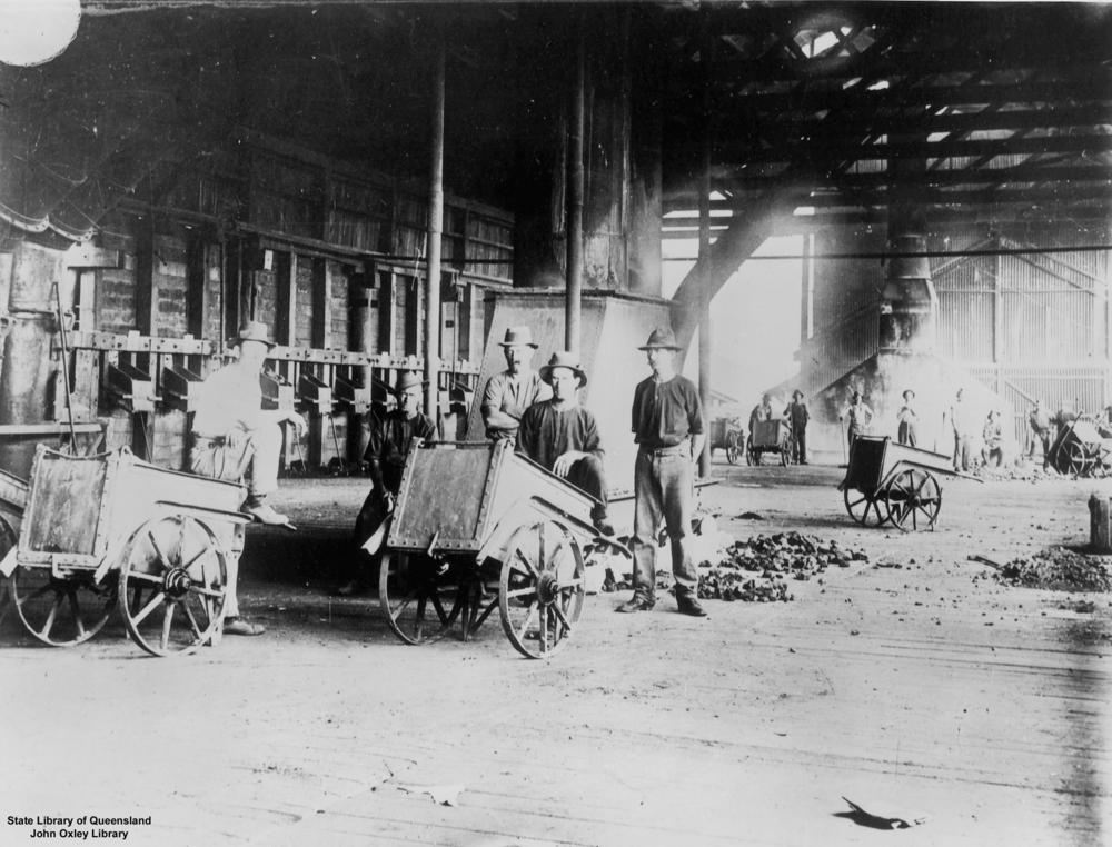 Inside the Chillagoe Smelting Works, Queensland, ca. 1920. Workers with trolleys inside the Smelting Works at Chillagoe, Queensland, around 1920.